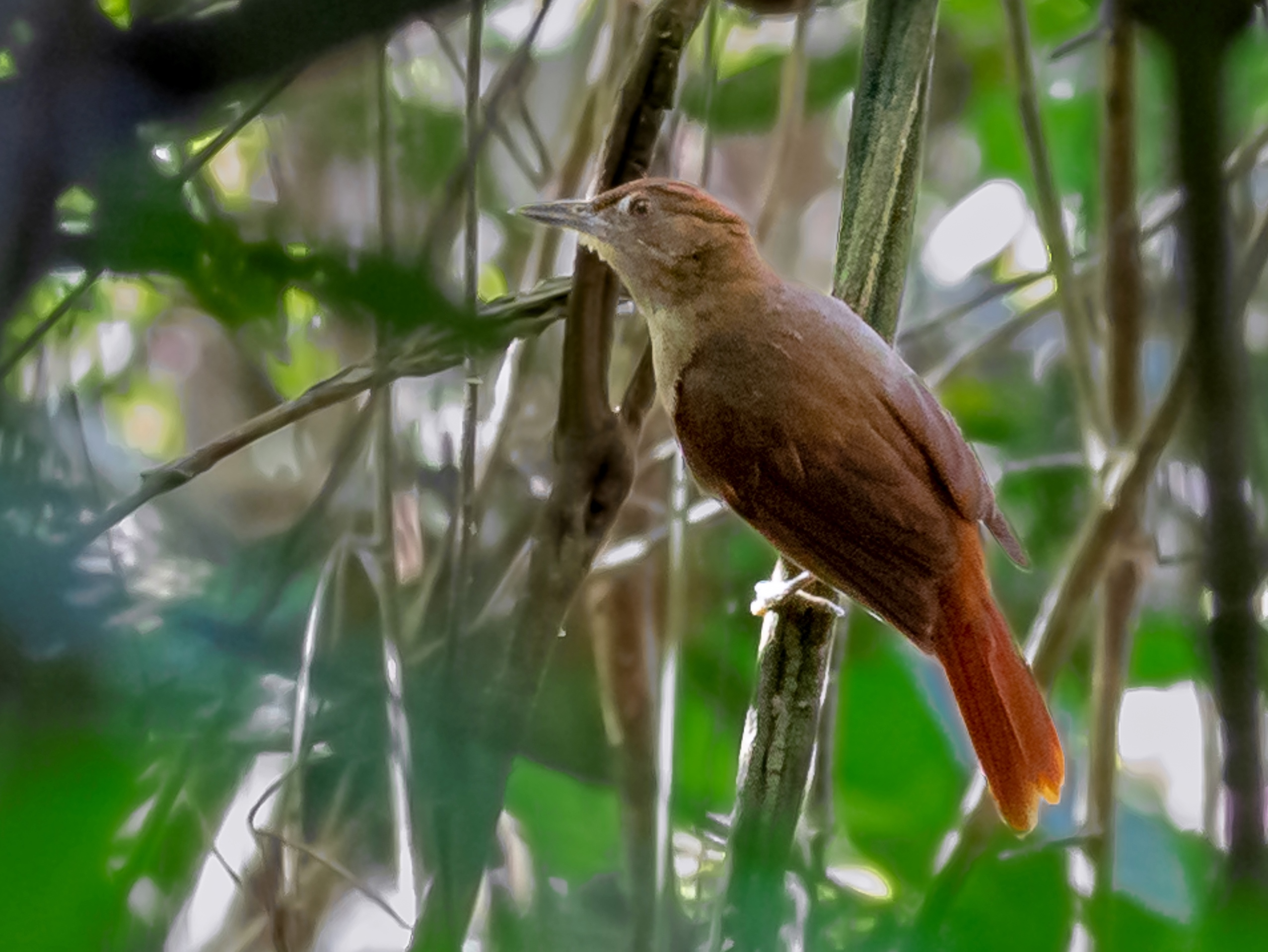 Chestnut-crowned Foliage-gleaner , Carajas National Forest, Pará, Brazil